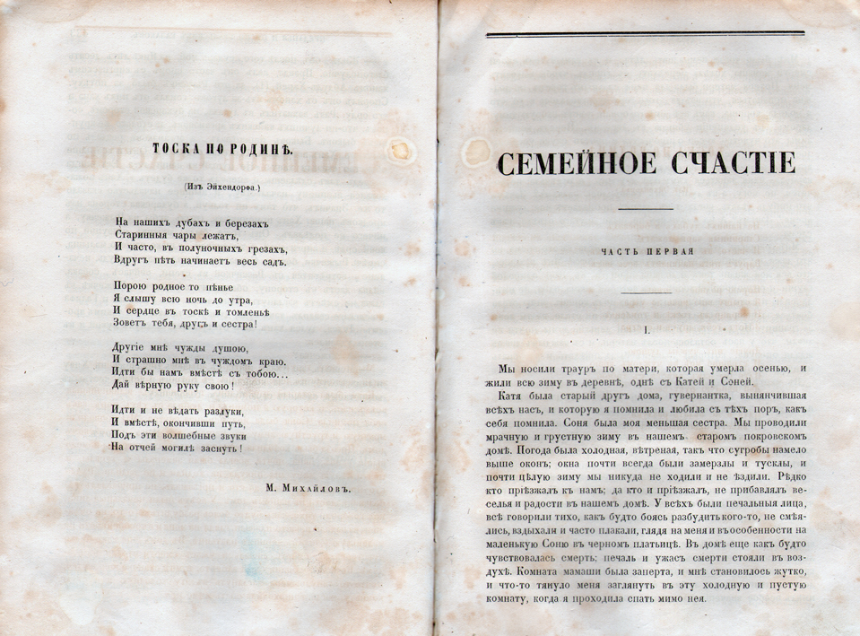 «Family Happiness», a novel by Leo Tolstoy; poem by Mikhail Mikhailov